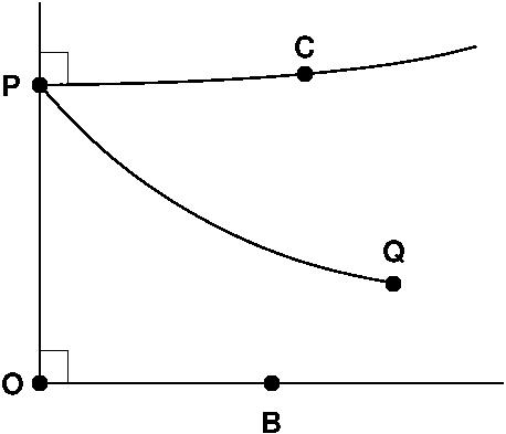 Saccheri quadrilateral and parallel angle